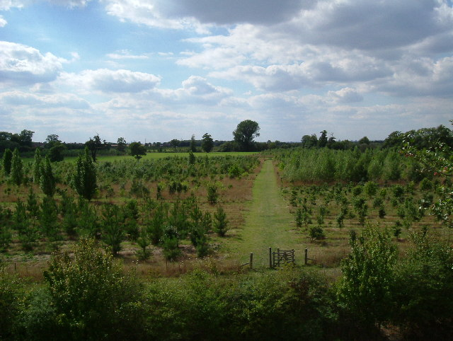 Thames Chase at Belhus. Newly planted mixed woodland in Belhus Park. South Ockendon. Part of Thames Chase the new community forest to the East of London. See a couple of years more growth at 536329. For more information see the Woodland Trust Website